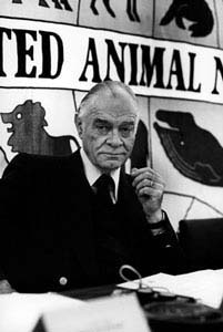 Denis de Rougemont